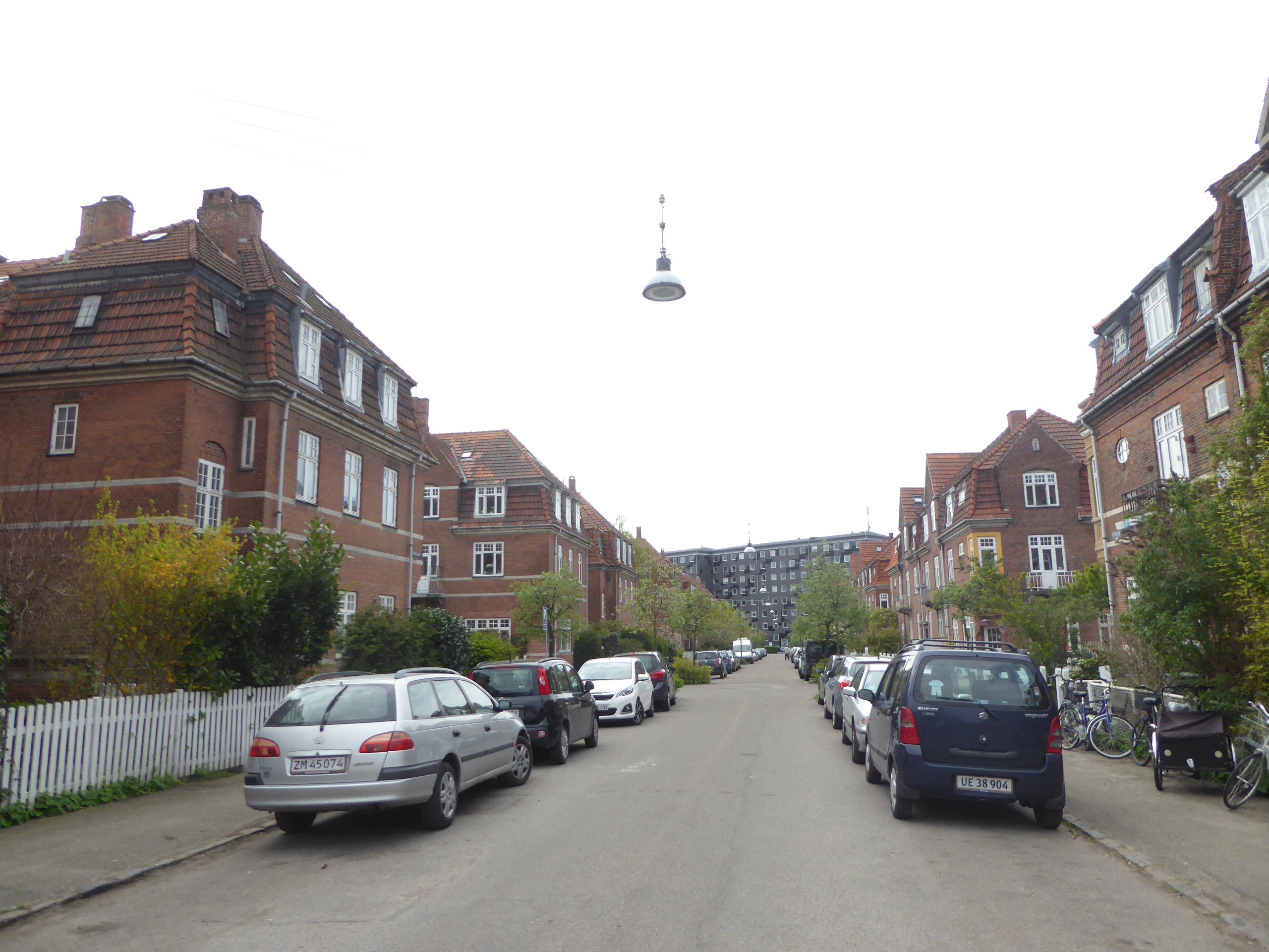 The street F.F. Ulriks Gade in Østerbro in Copenhagen.